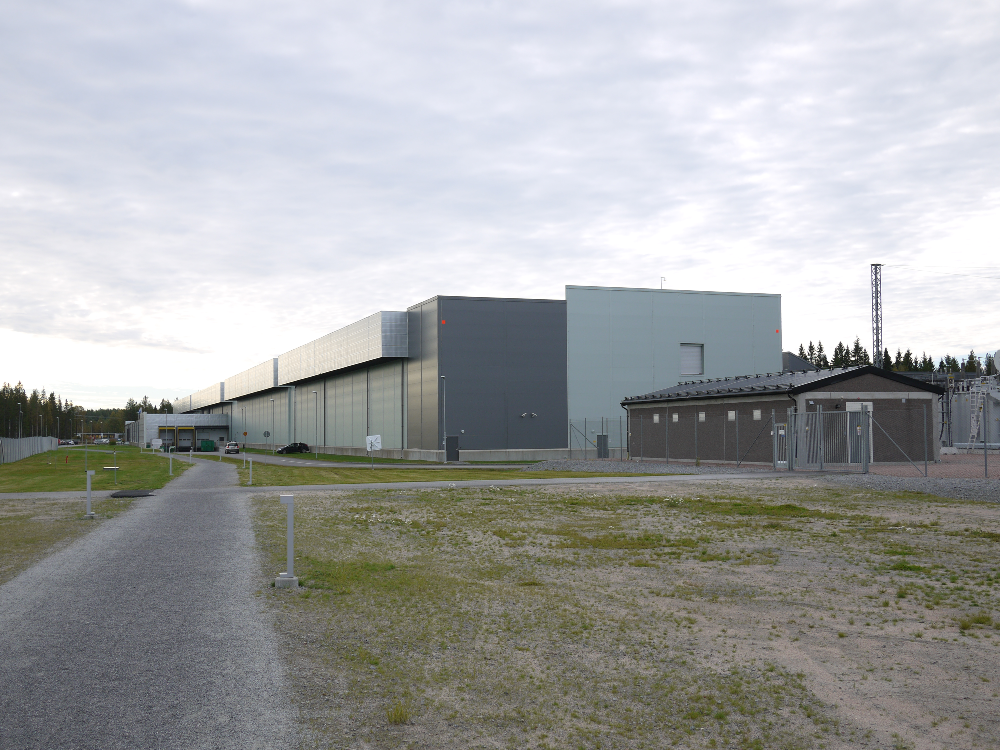 Lulea Facebook datacenter building